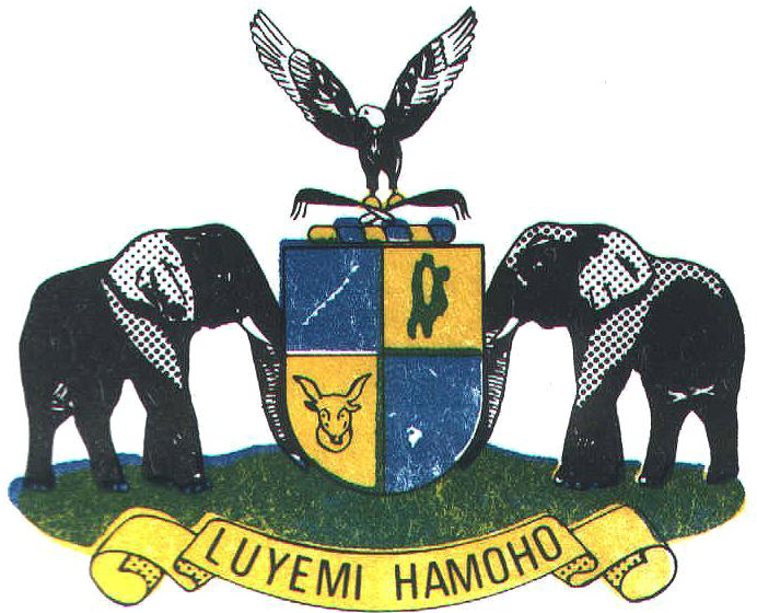 Coat of arms of East Caprivi